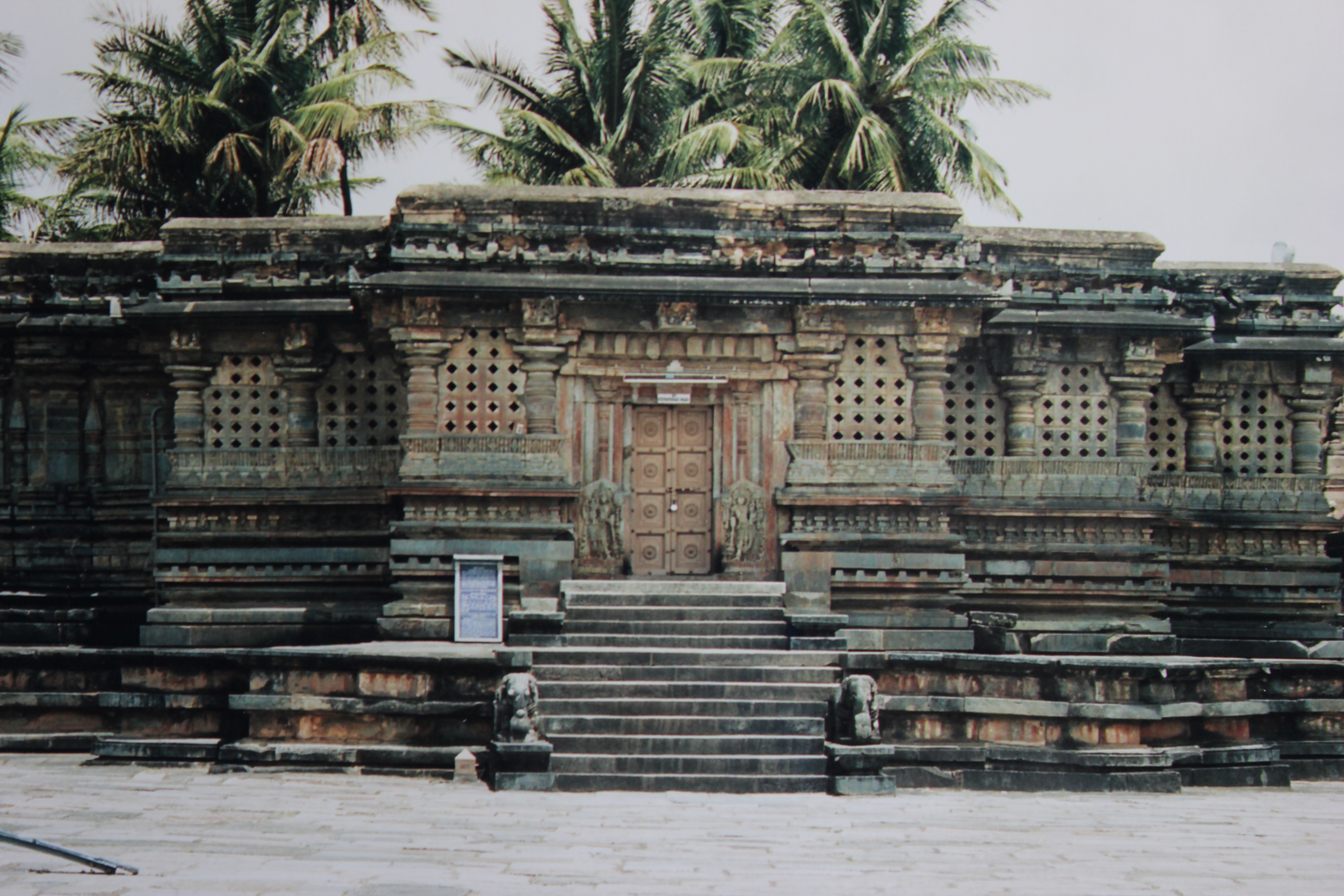 This photograph was taken at the Kappe Chennigaraya temple in Belur, in the Hassan district of Karnataka state, India. The temple was constructed by Hoysala Queen Shantaladevi in 1117 A.D. at the same time her King Vishnuvardhana built the Chennakeshava temple in the same complex.